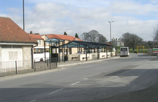 Tadcaster Bus Station - Commerial Street